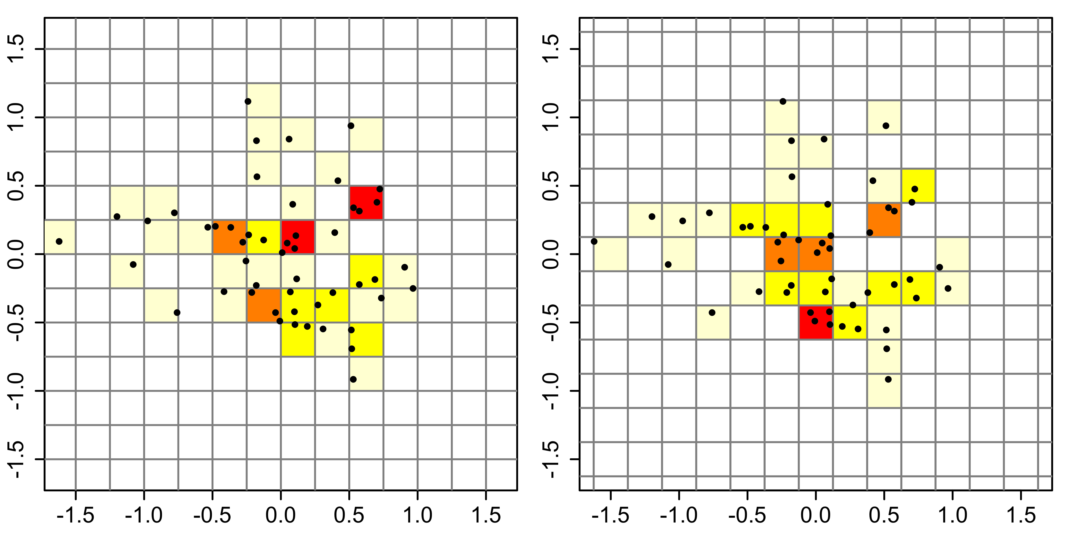 2D histograms of a synthetic data set to illustrate effect of anchor point (lower left corner of histogram grid).